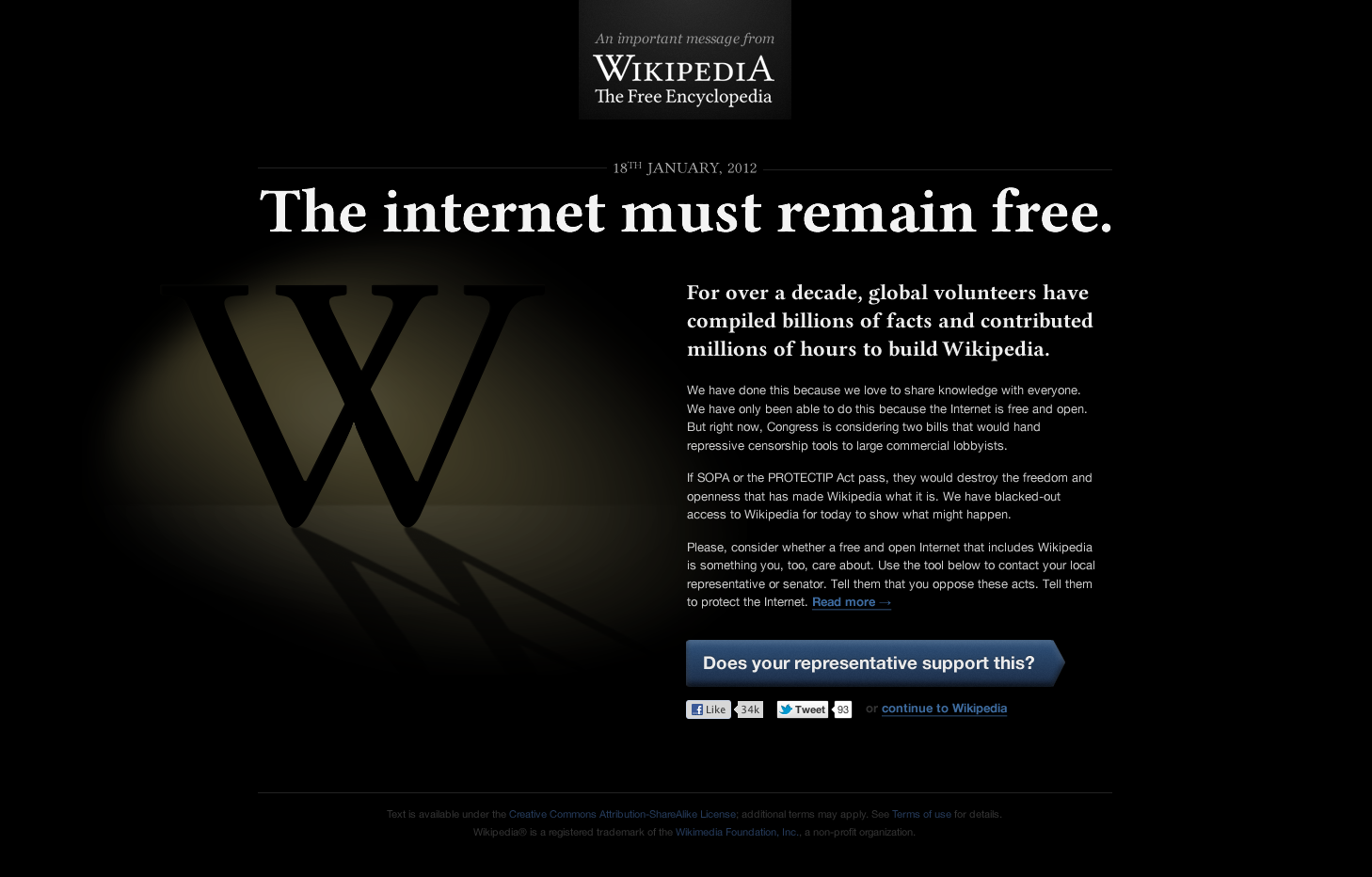 Mock design for a potential "blackout" screen for the English Wikipedia